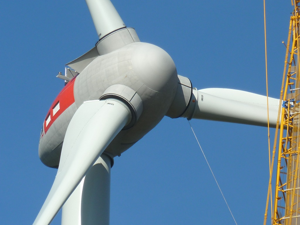 Enercon E-101 rotor blade assembly with crawler crane during the repowering of the Freiensteinau wind farm (Hesse, Germany).